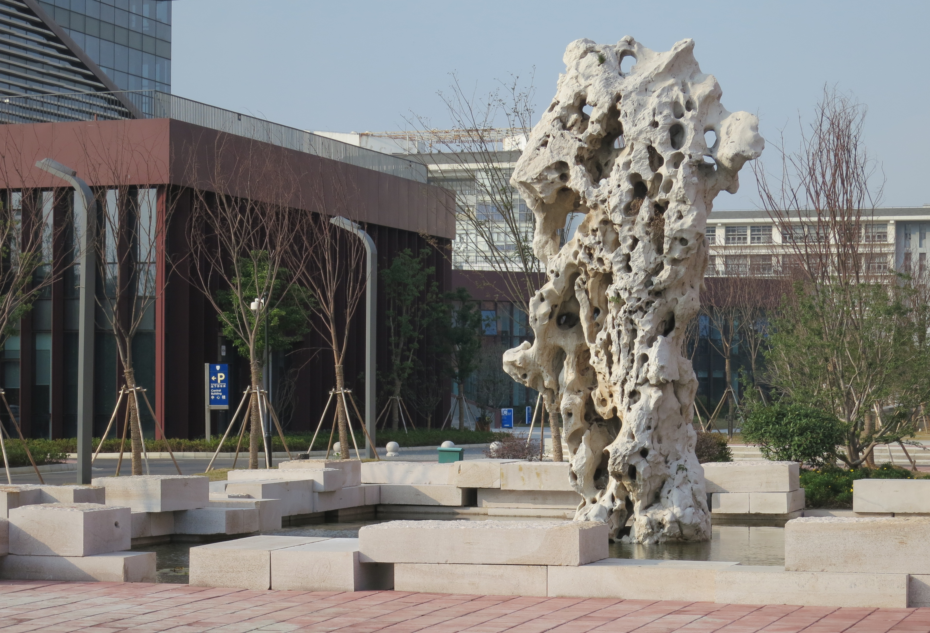 South Entrance to North Campus of Xi'an Jiaotong-Liverpool-University